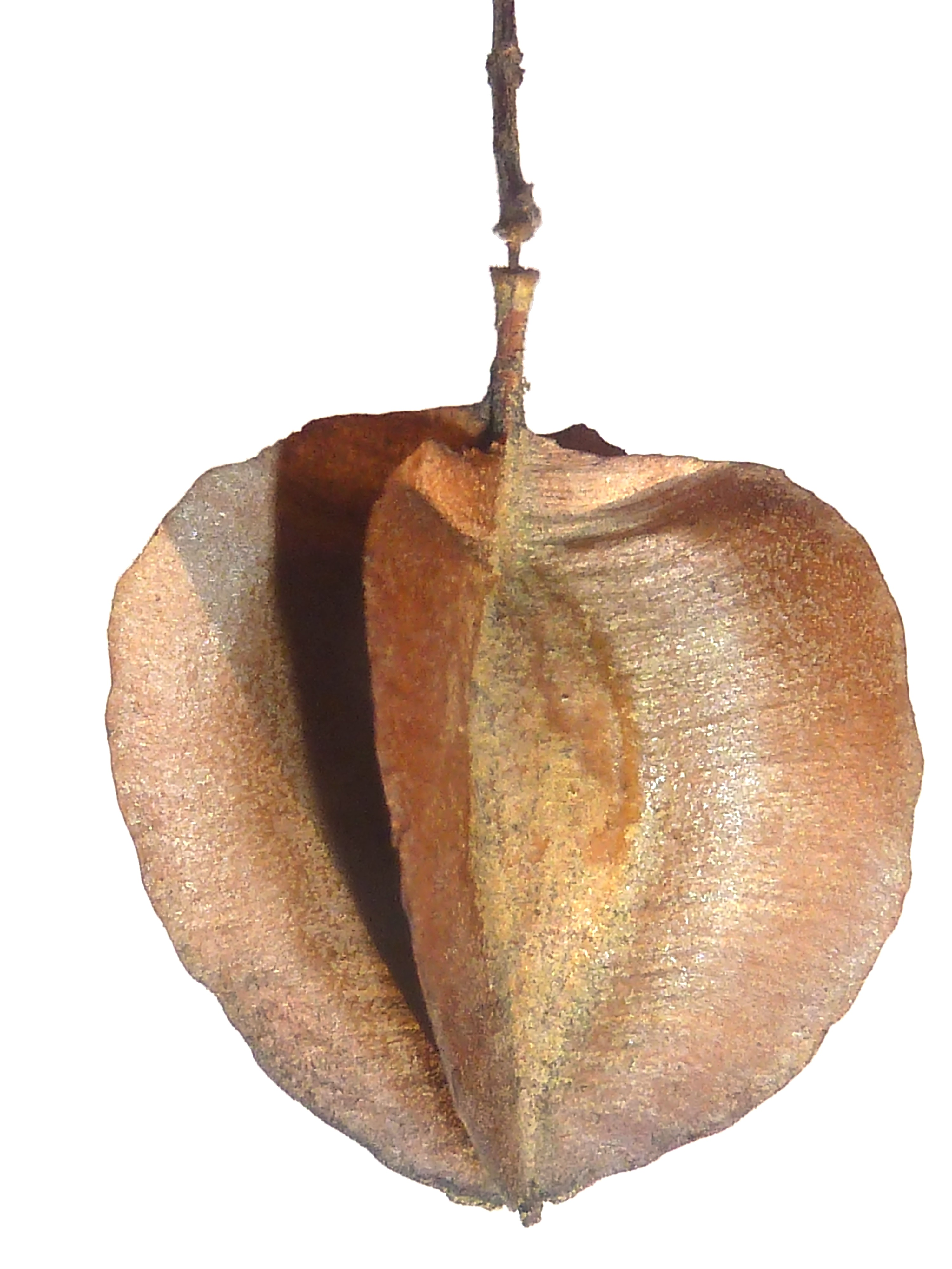 Fruit of a Red bushwillow at Phakama private lodge in Dinokeng Game Reserve, Limpopo